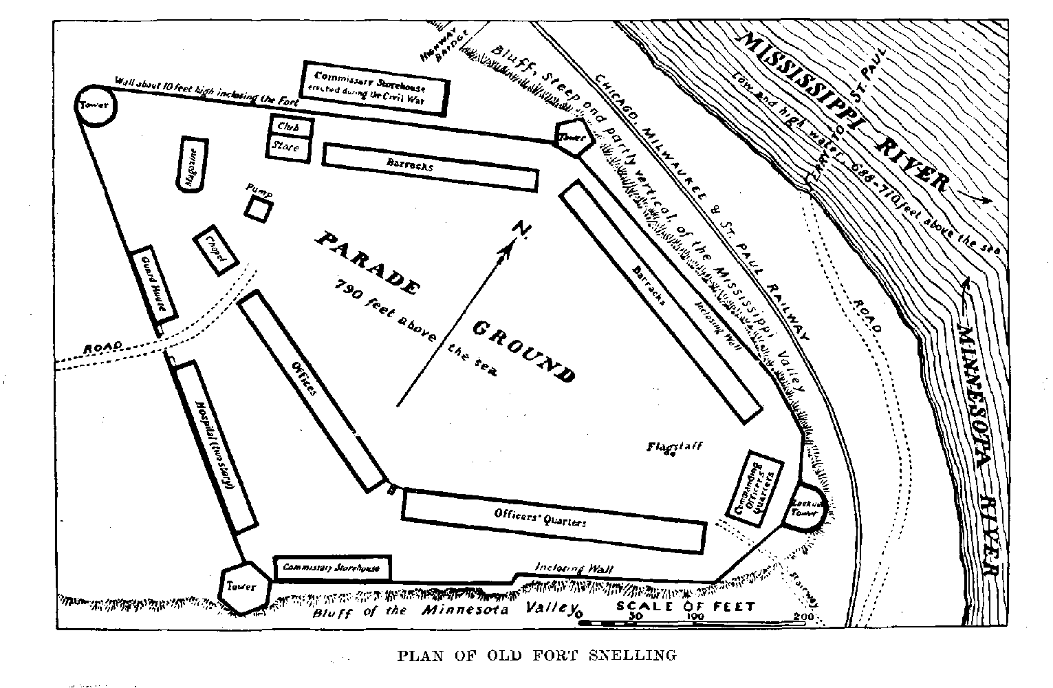 From Gutenberg project [1], author: Marcus Hansen, title: Old Fort Snelling 1819-1858, copyright 1918 by The Torch Press. This image from p. 74b [2]